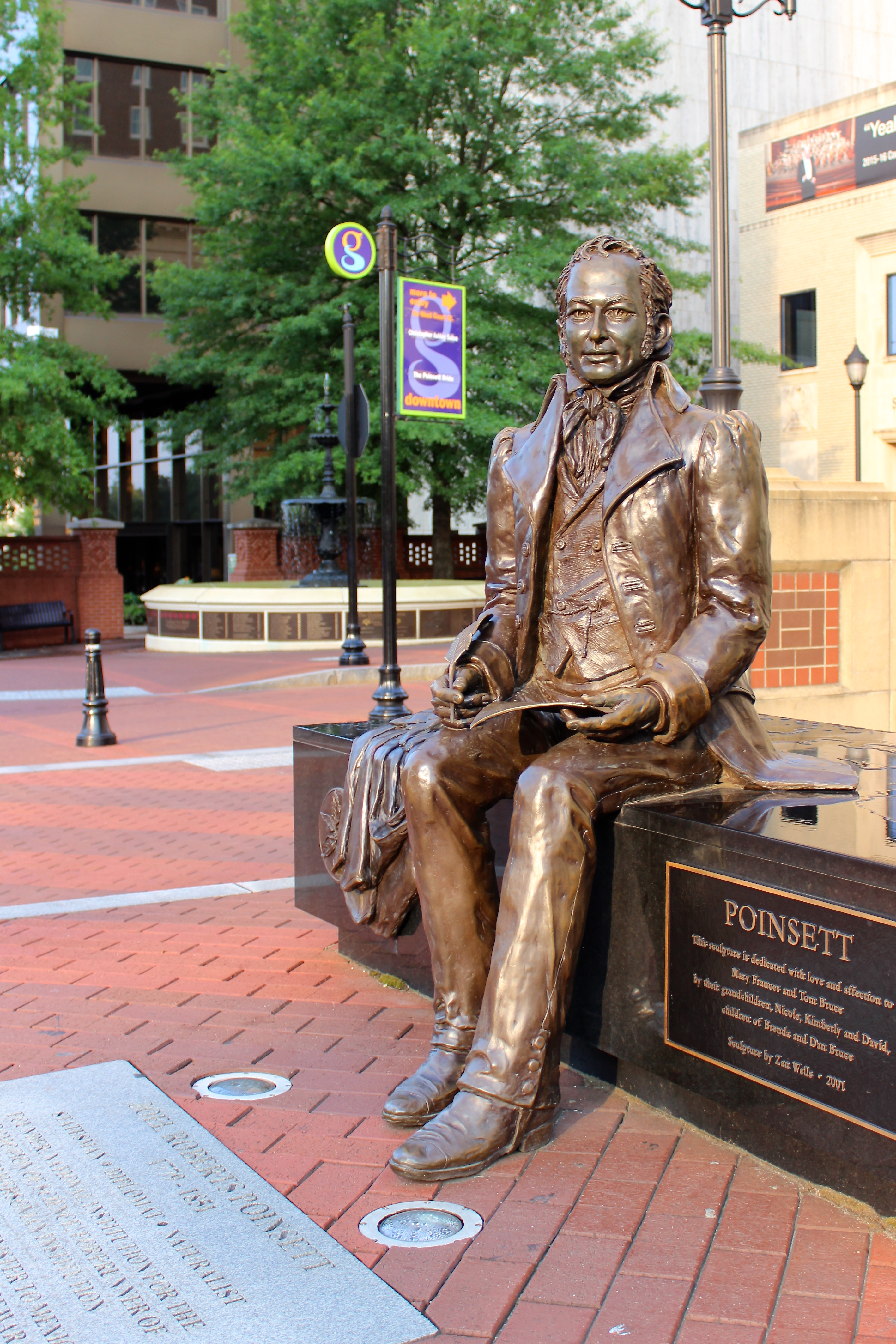 Statue of Joel Poinsett (1779-1851) in Greenville, South Carolina.